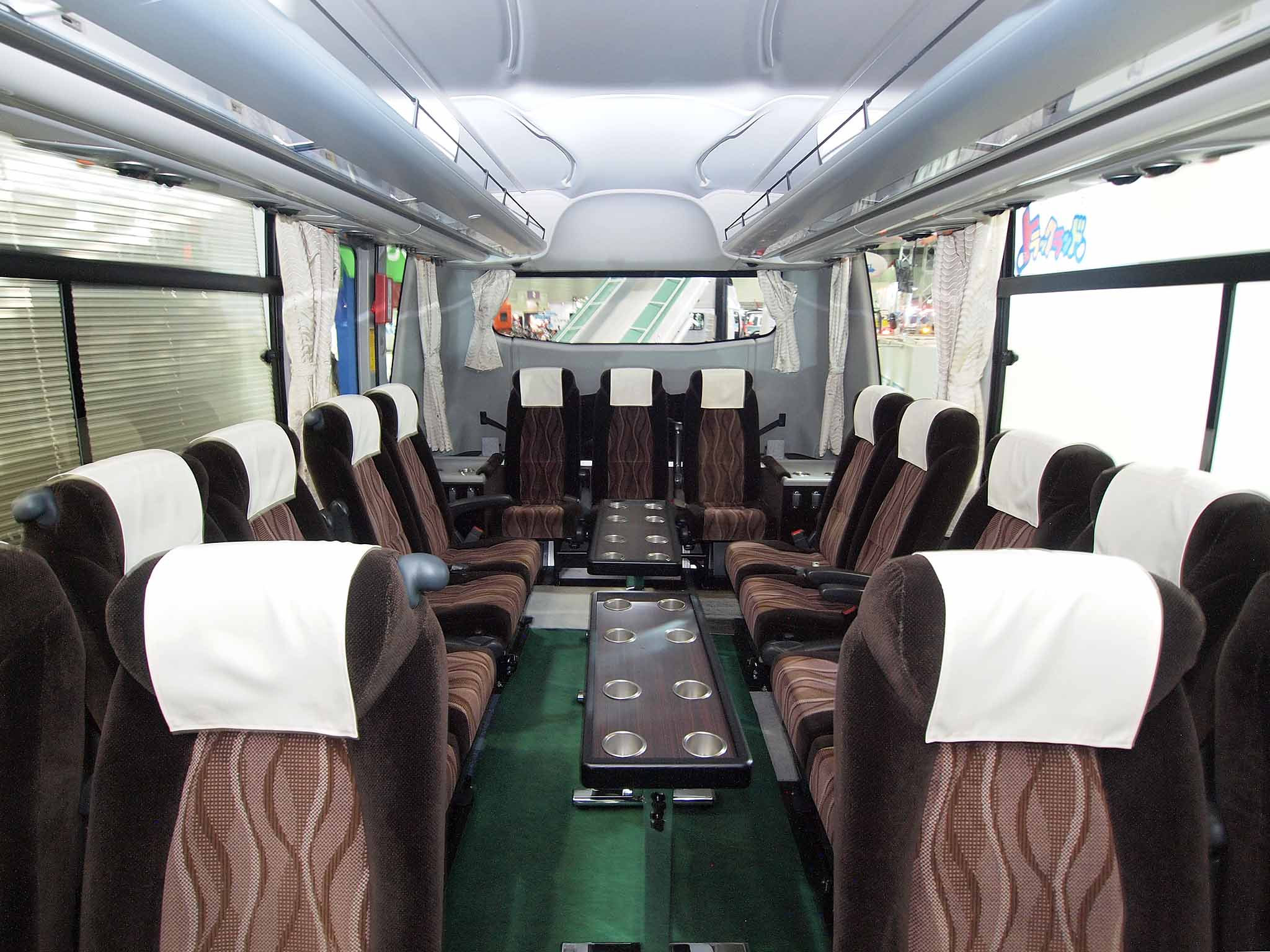 Cabin of Hino Selega HD-S, aft seats arranged "Semi-salon" configuration.